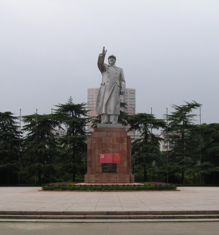 Statue of Mao Zedong in Qingshui Tang (an area in Changsha where he used to live with his first wife, Yang Kaihui)